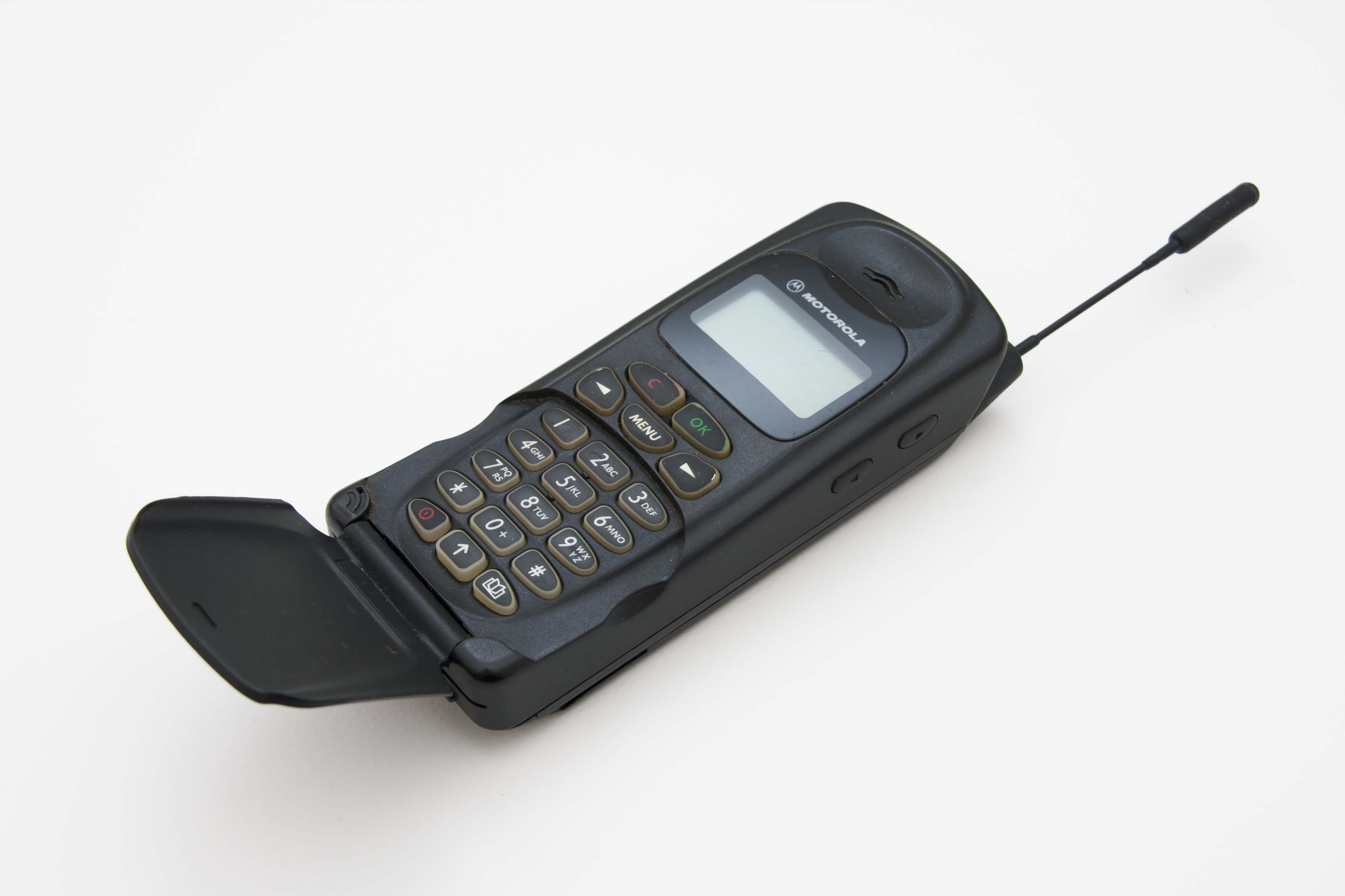 Morola d470 GSM mobile phone